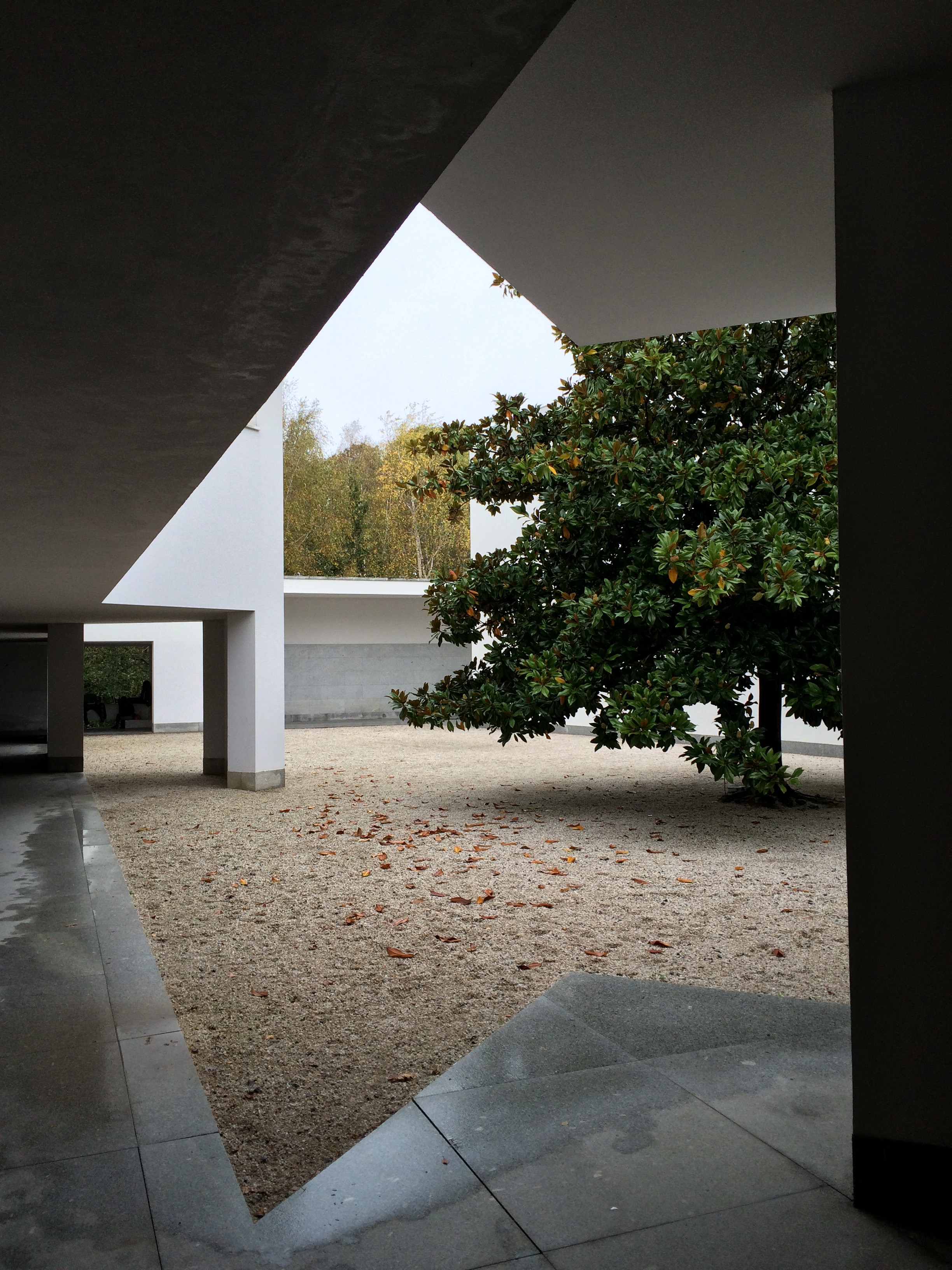 view to the entrance of the Museum Serralves (Museu de Arte Contemporânea de Serralves) in Porto, Portugal